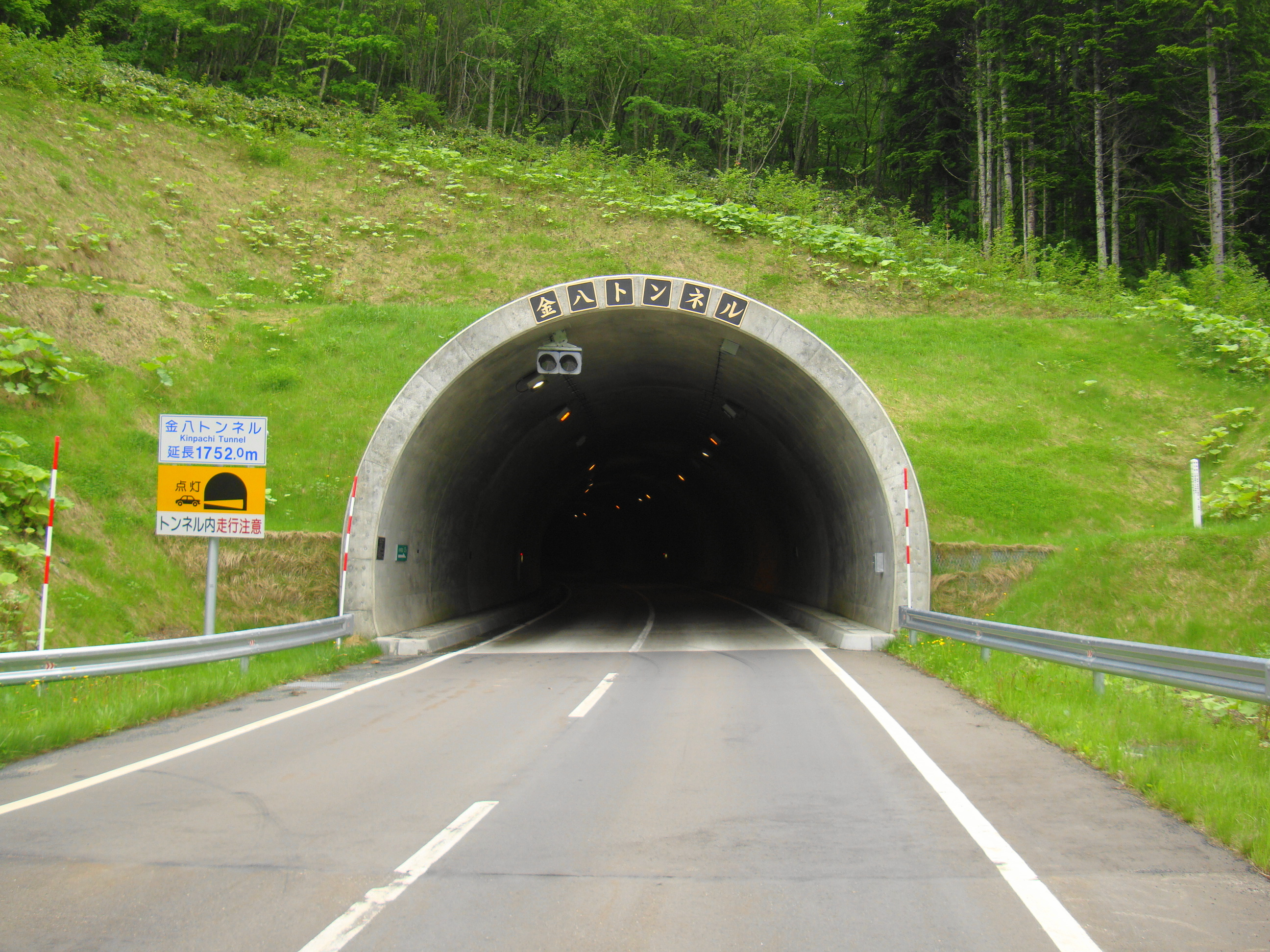 Kinpachi tunnel on the Hokkaido Prefectural Road Route 305, Mombetsu side